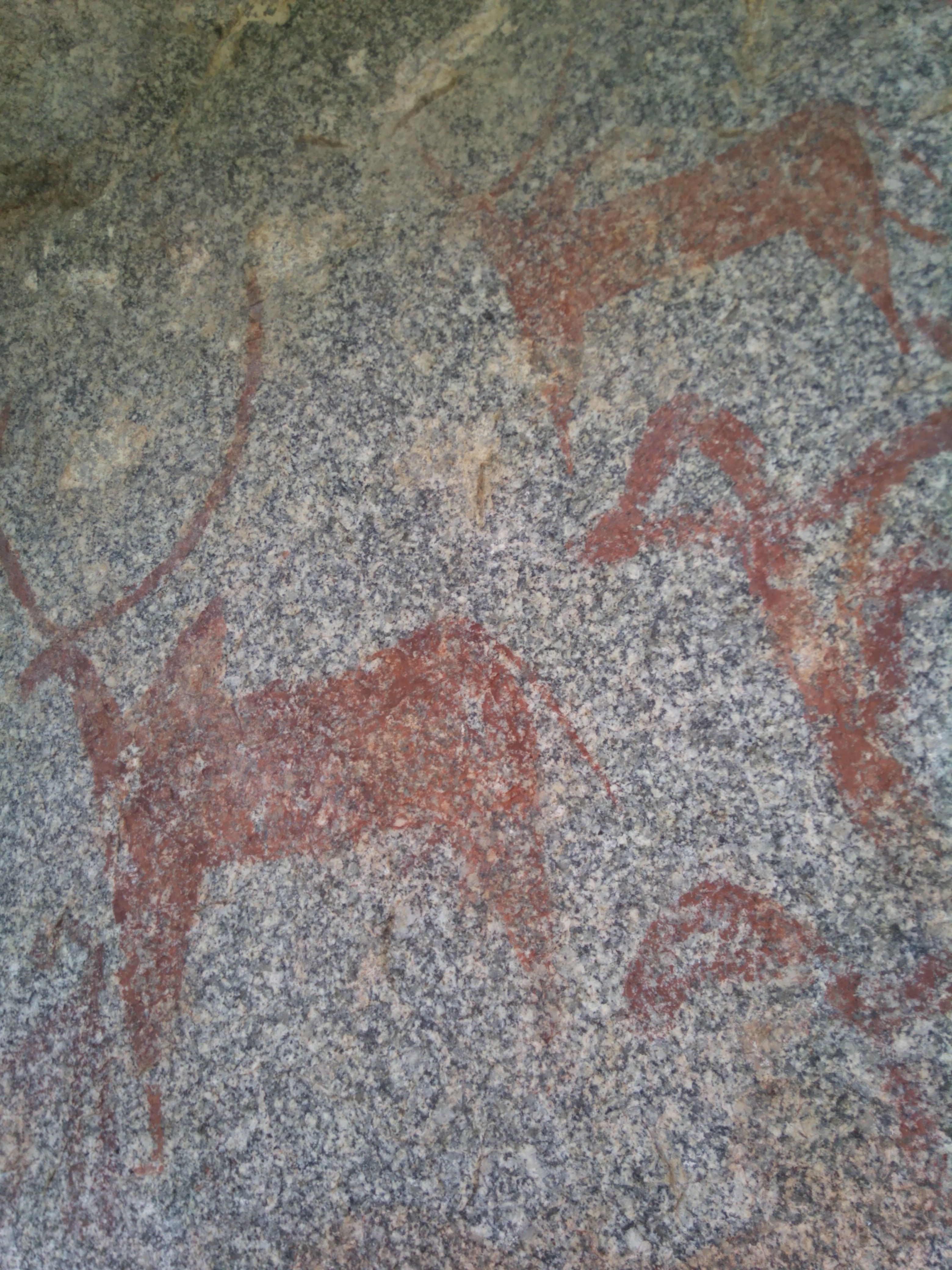 Rock Art at Onake Kindi, near Anegundi, Karnataka at taken at 2014-12-31 15.23.50